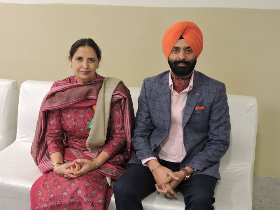 Punjabi poetess Sukhwinder Amrit and Punjabi Academy General secretary Gurbhej Singh Goraya at National Republic Day Punjabi poetry event,Delhi ,India